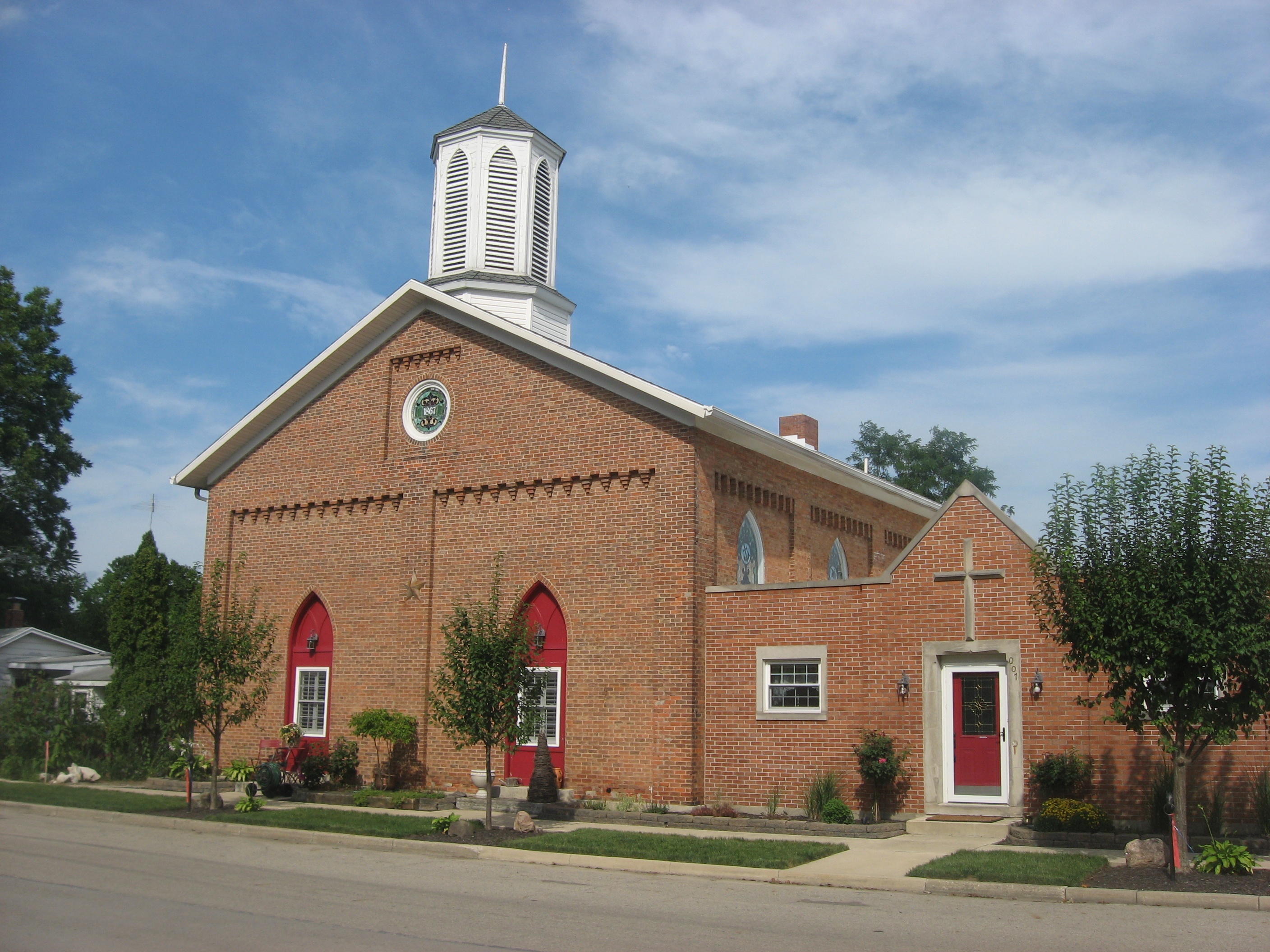 Front of the Casstown Lutheran Church, located at 7 S. Main Street in Casstown, Ohio, United States.